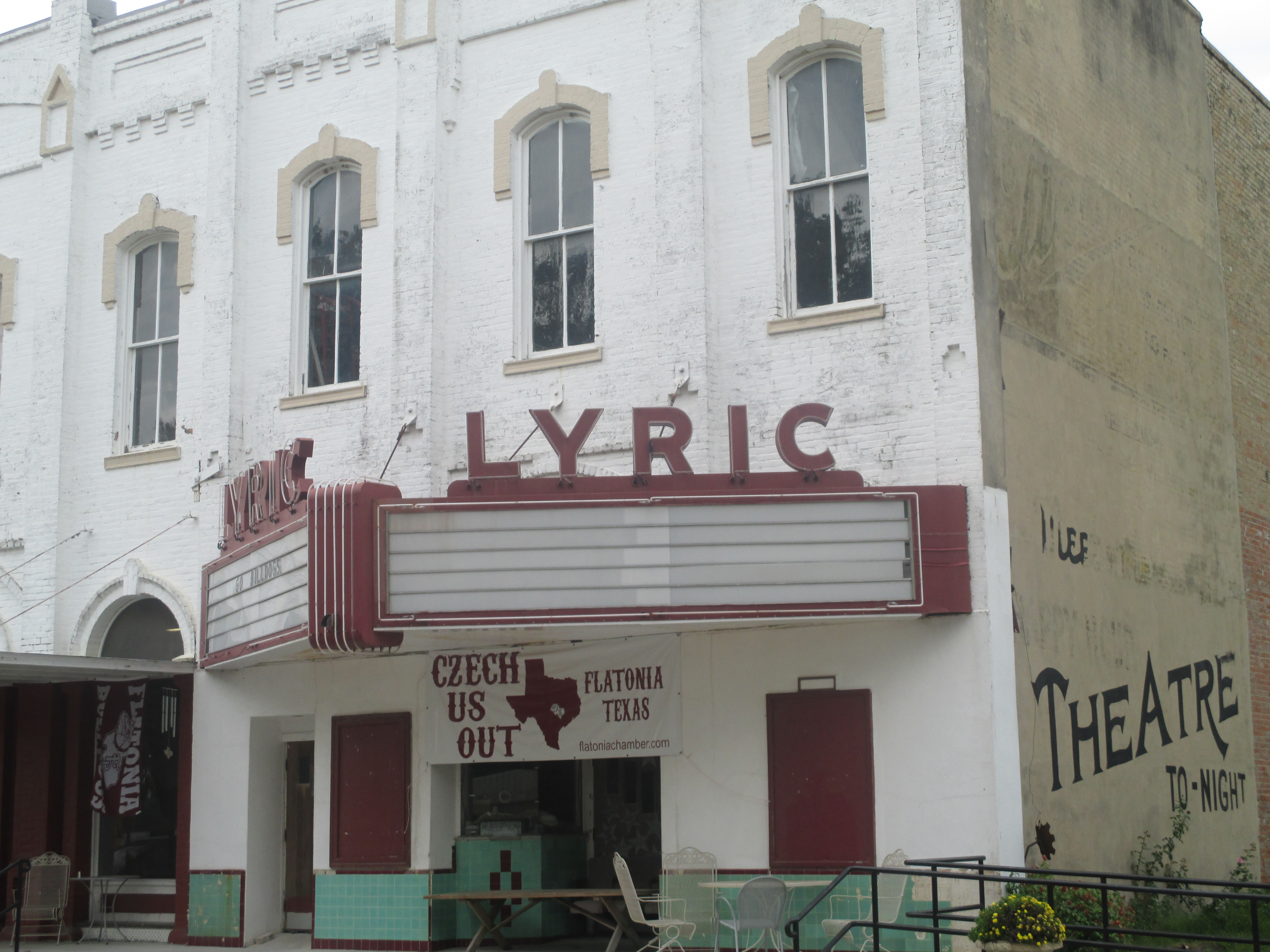 Lyric Theatre at 120 E. South Main St. in Flatonia, TX.